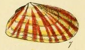 Moerella donacina (Linnaeus, 1758), Tellinidae, Bivalvia, Mollusca, from George Brettingham Sowerby II 1859: pl.3, fig.7